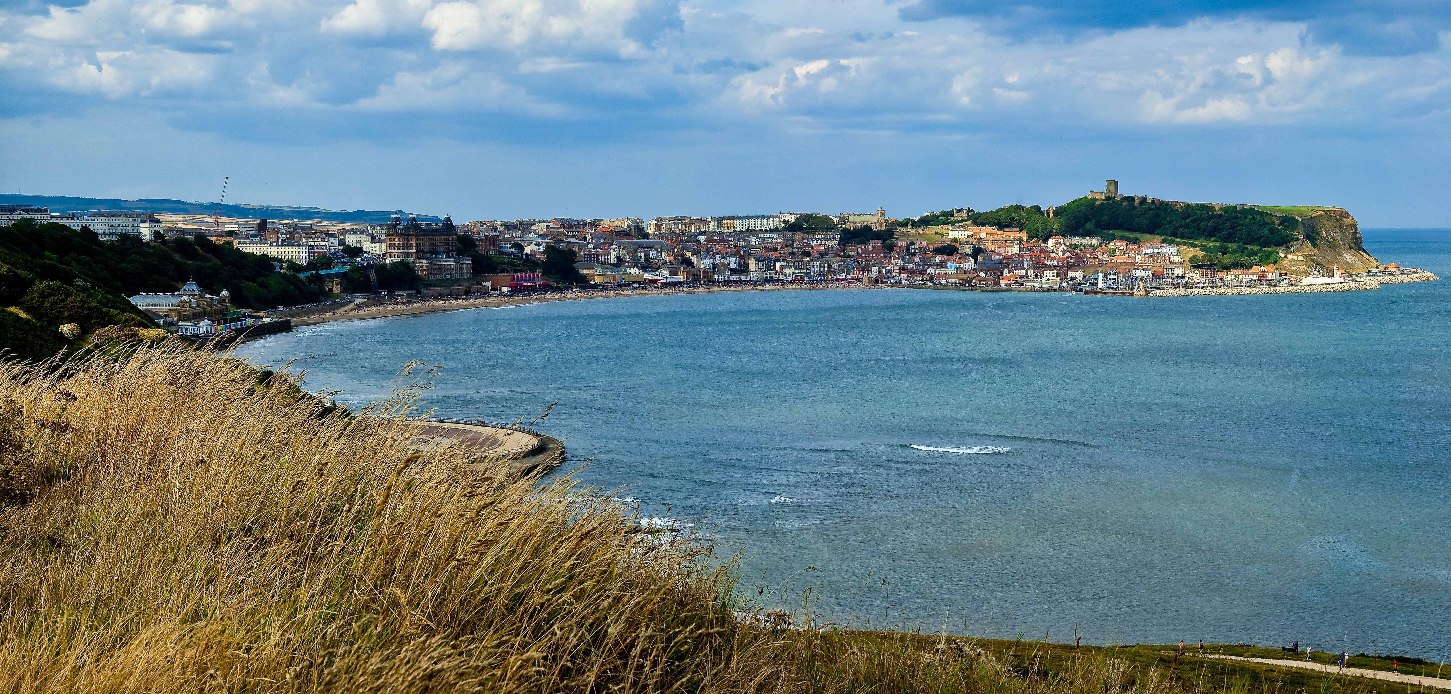 From Sea Cliff Road Become a fan on facebook